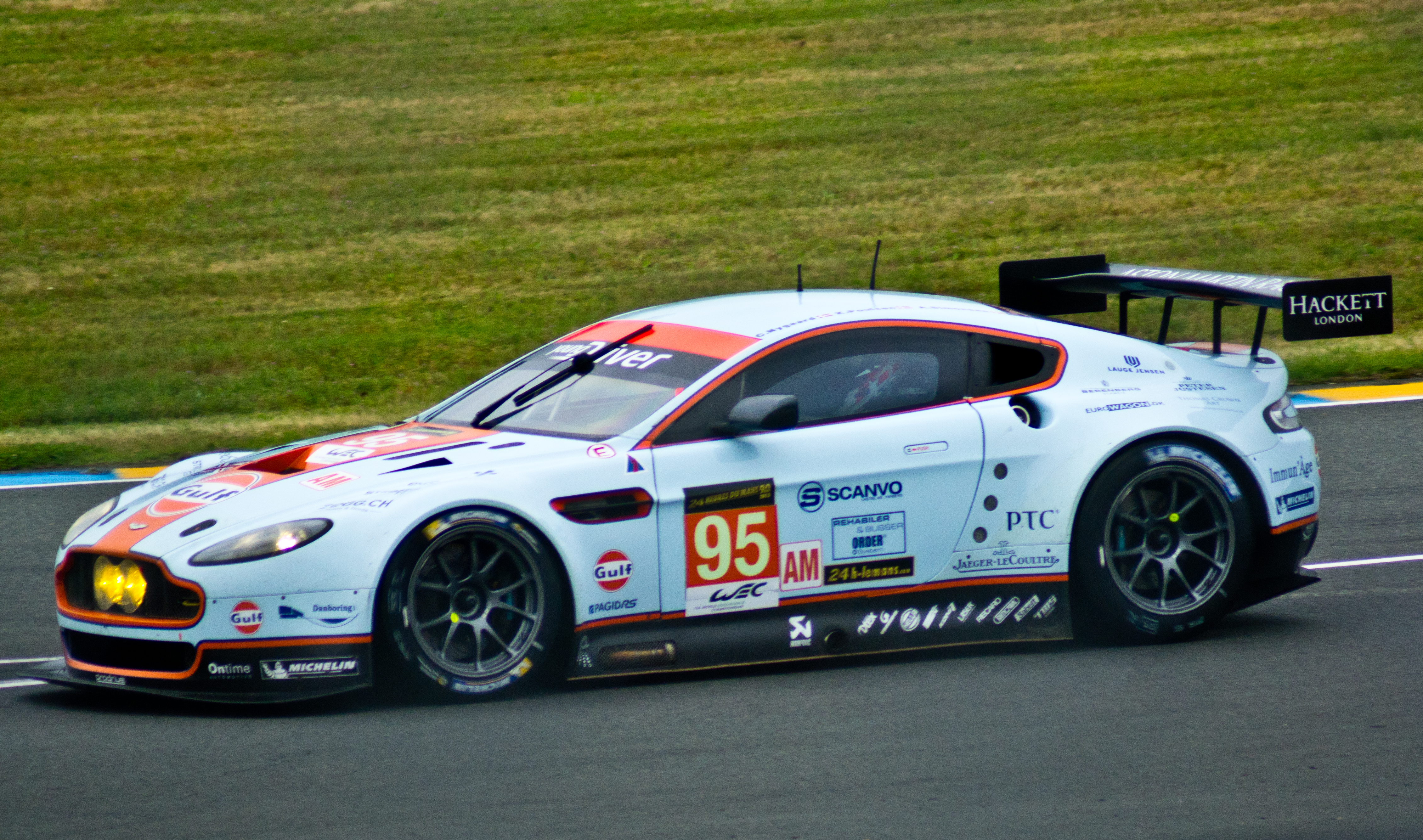 Allan Simonsen in the No. 95 Aston Martin Vantage GTE before his fatal crash at the 2013 24 Hours of Le Mans